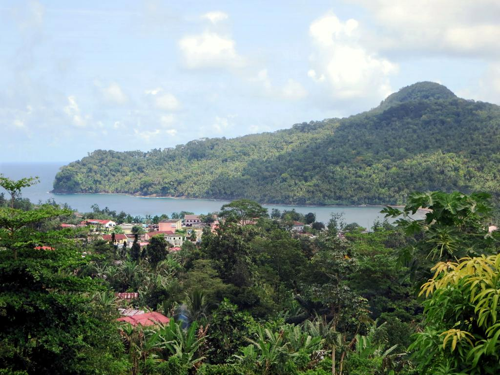 A view of Angolares from Roca de Sao Joao on the southeast coast of Sao Tome Island, São Tomé and Príncipe.